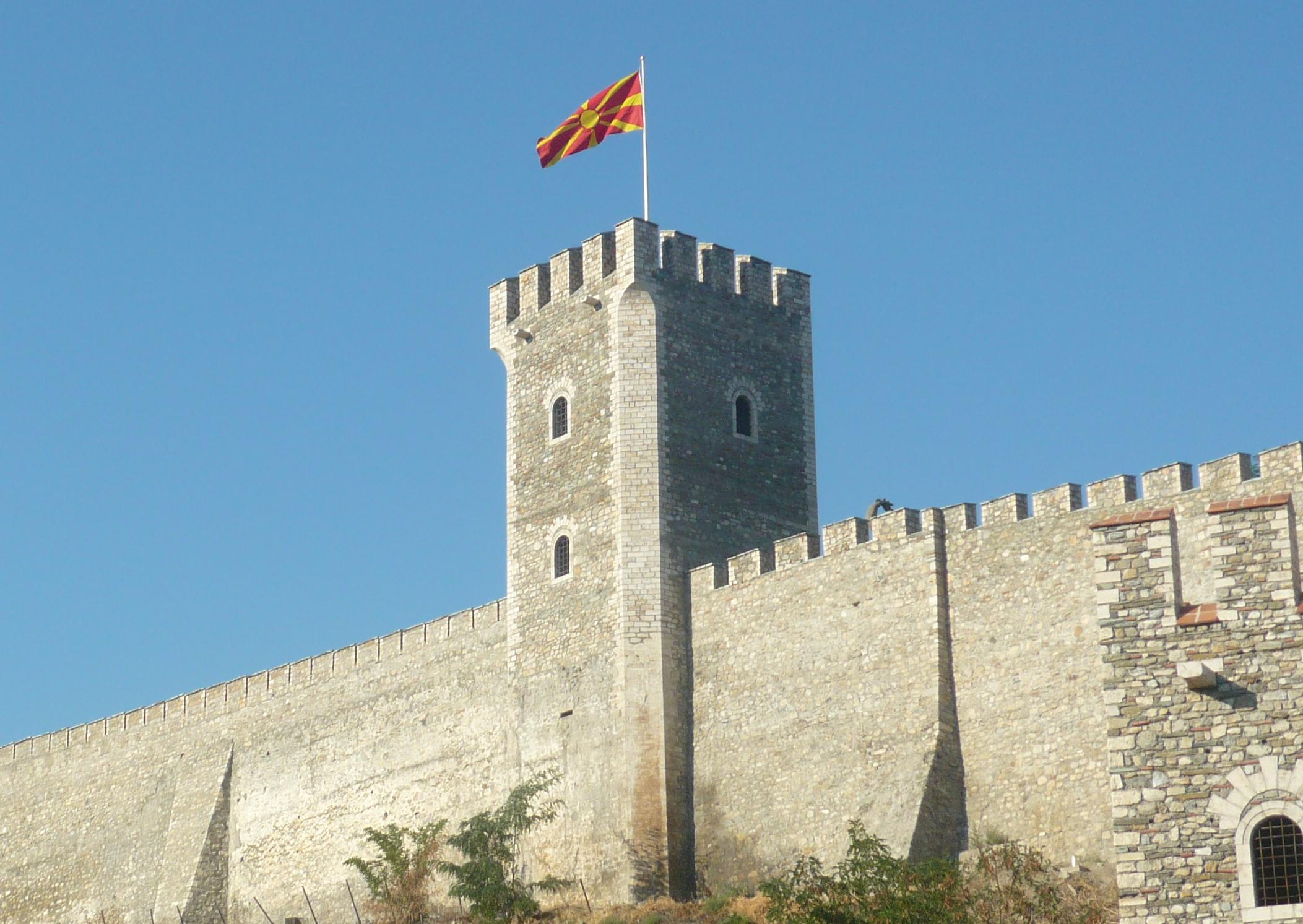 A tower of the Kale Fortress in Skopje, with a Macedonian flag on the top